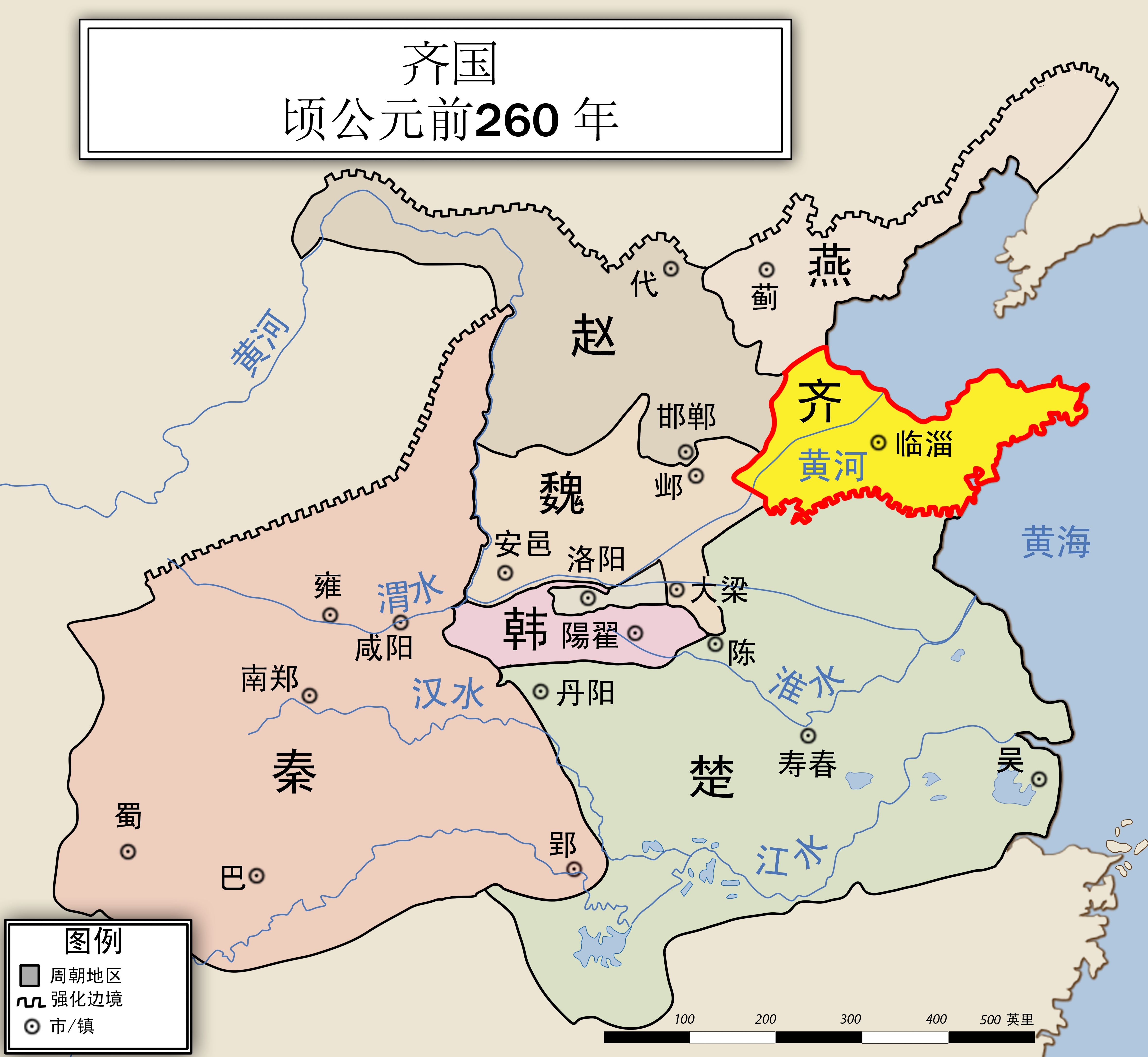 China Map, Qi State, 260BCE